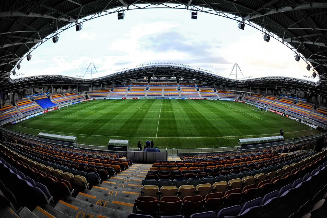 Barysaw-Arena (Borisov Arena) in Barysaw, Minsk Voblast, Belarus